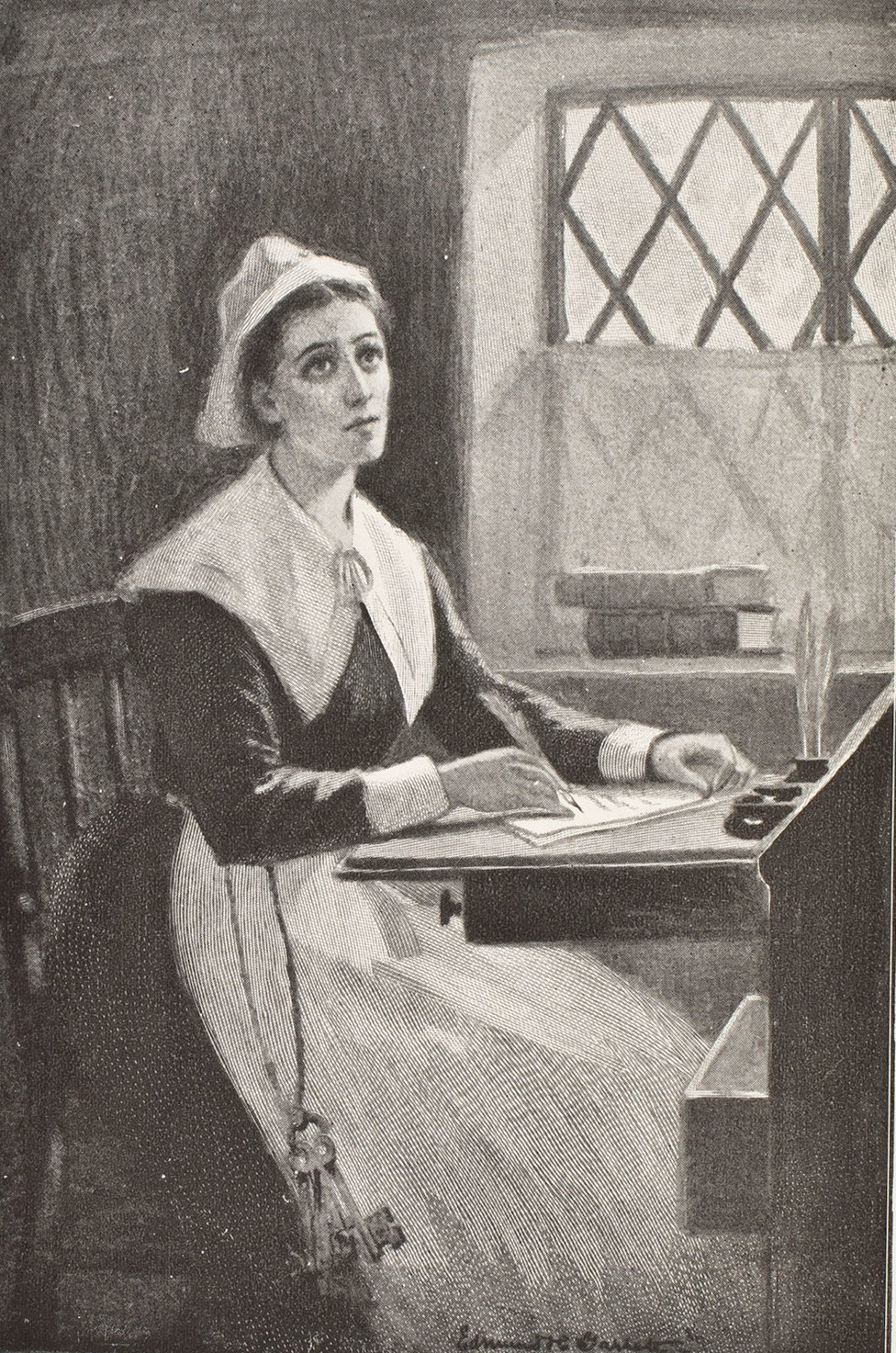 Frontispiece for An Account of Anne Bradstreet: The Puritan Poetess, and Kindred Topics, edited by Colonel Luther Caldwell (Boston, 1898). Courtesy of the American Antiquarian Society, Worcester, Massachusetts.